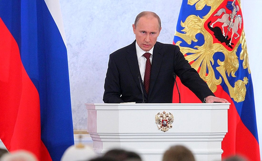 Vladimir Putin made annual Presidential Address to the Federal Assembly of the Russian Federation which outlines priority targets for national political and economic development.